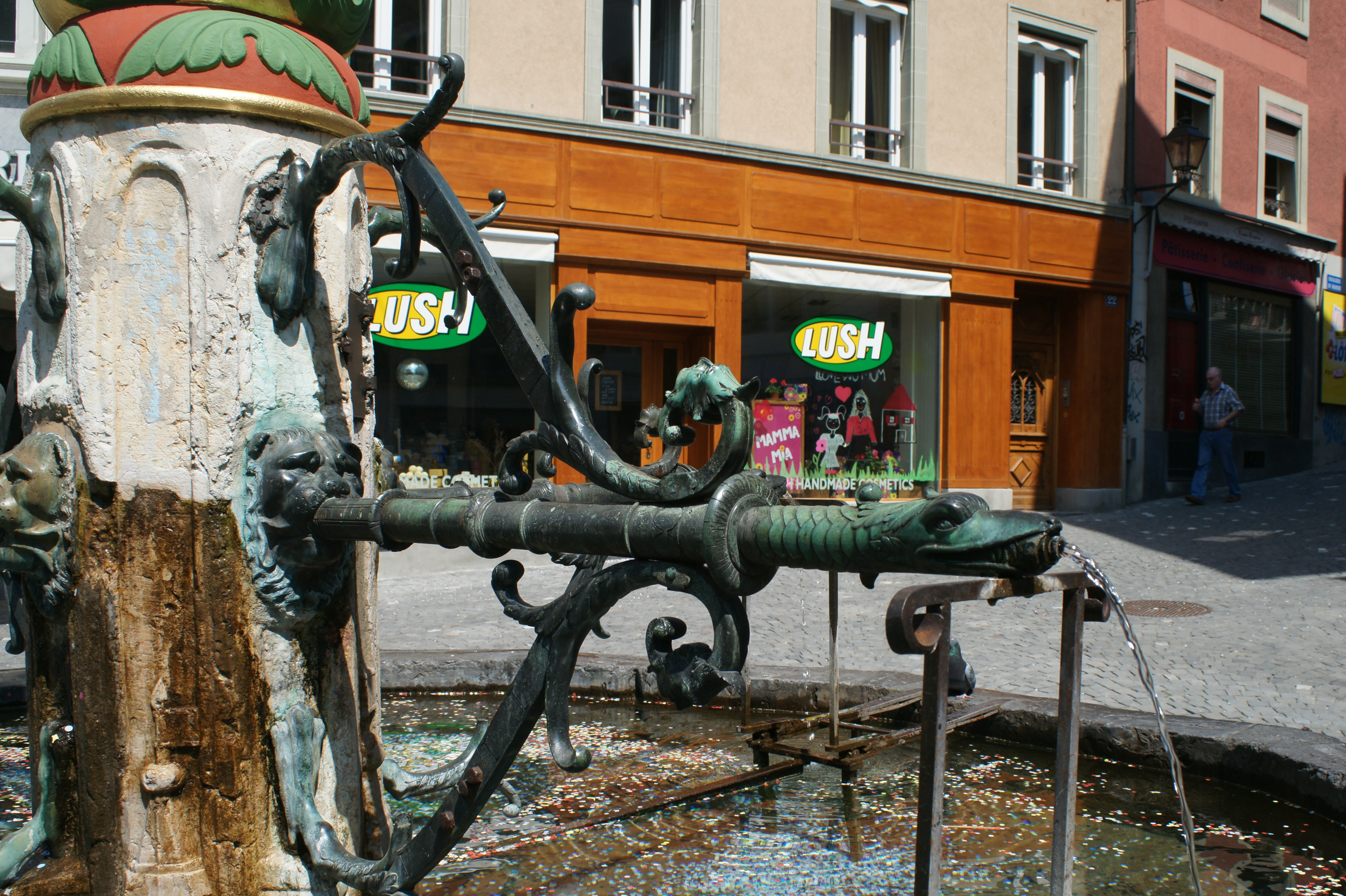 Lush in the Place de la Palud, Lausanne